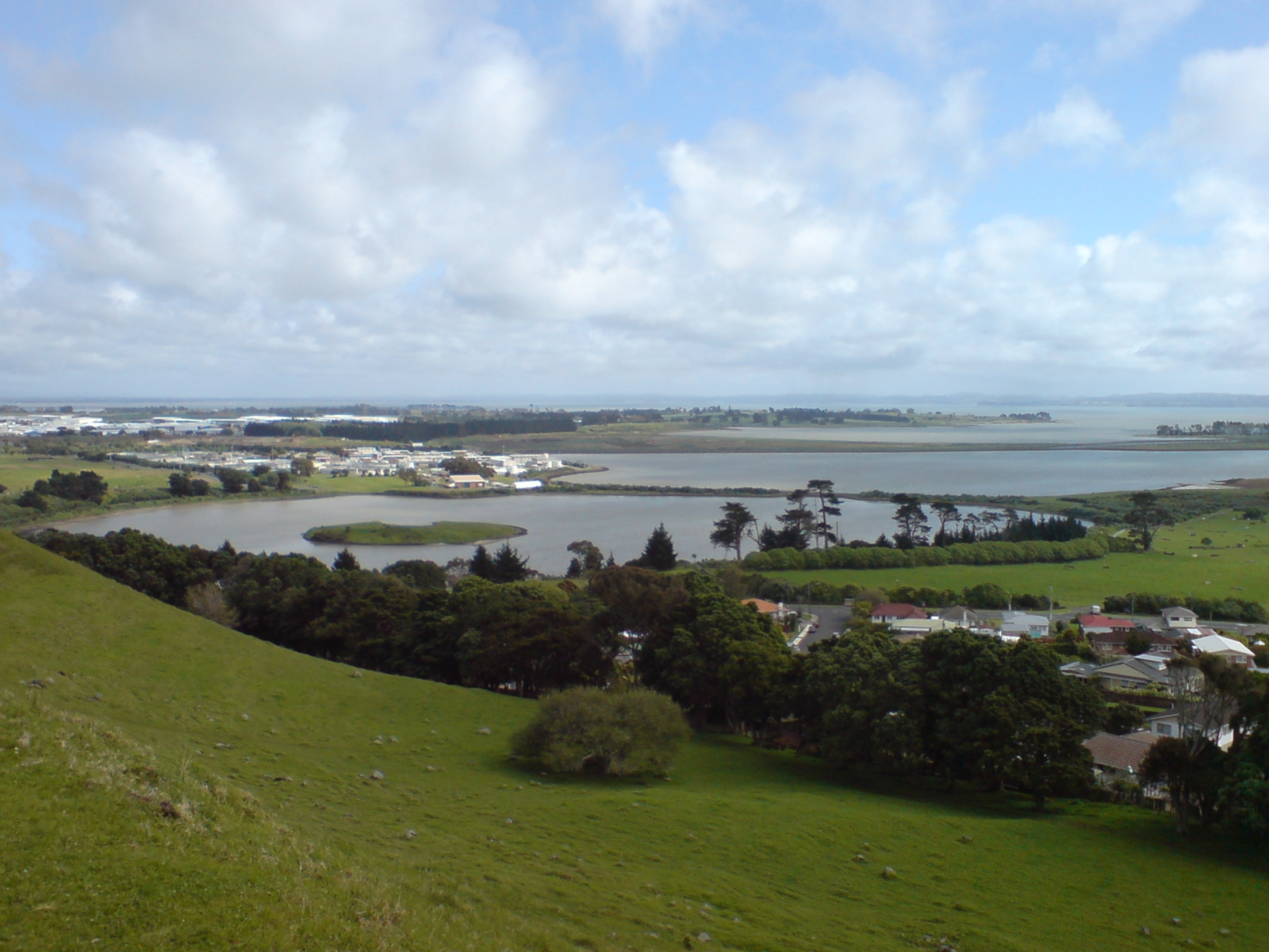 The sludge lagoons of Auckland's sewage treatment plants near Mangere Bridge in Manukau City, New Zealand.